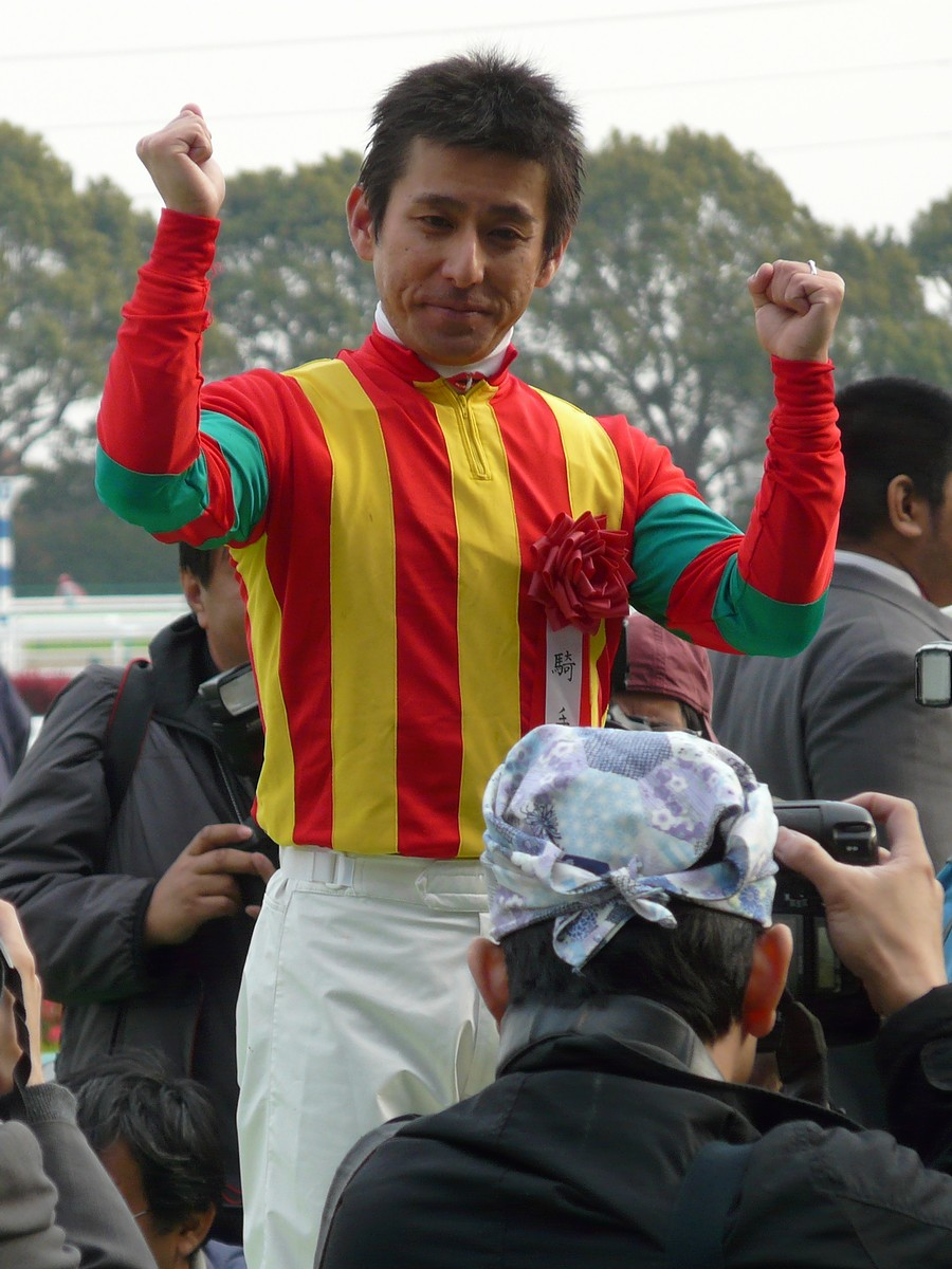 Hirofumi-Shii20100328